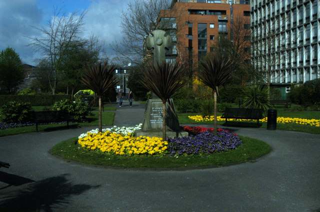 St John`s gardens St John`s church stood on this site until 1930`s